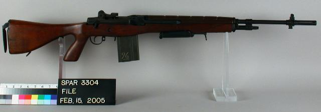 M14E2 Rifle